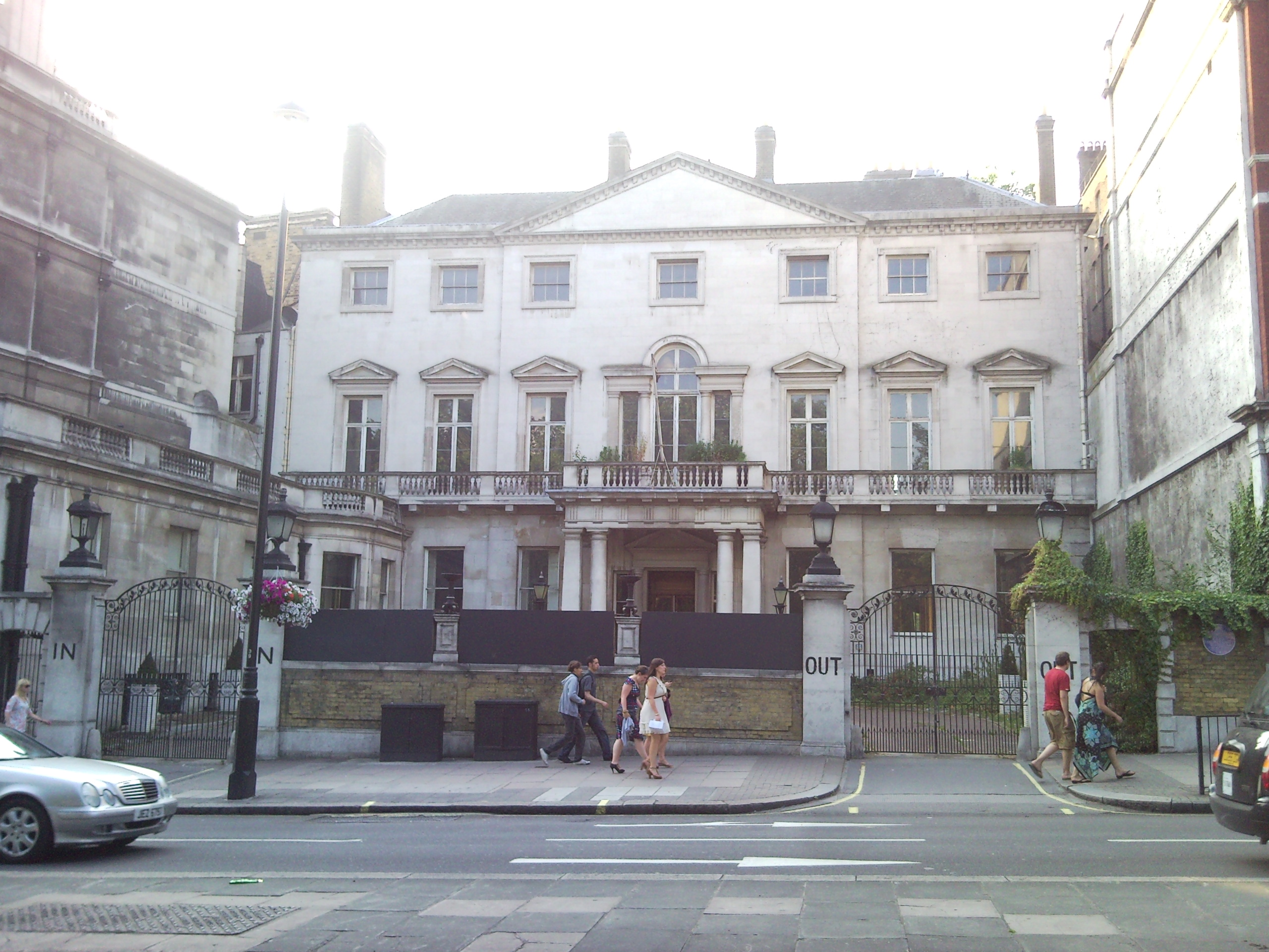 main front of Cambridge house in Piccadilly